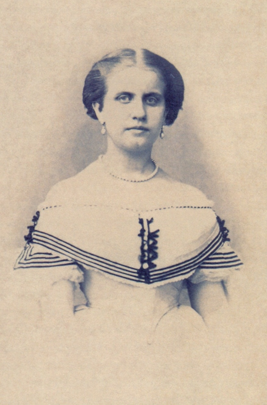 Princess Leopoldina, daughter of Emperor Pedro II of Brazil